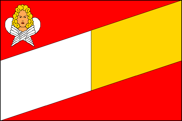 Flag of municipality Břidličná, Bruntál District, Czechia.